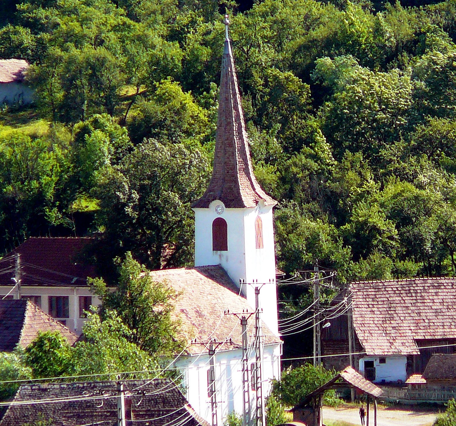 The Unitarian church in Nicoleni (Hungarian: Székelyszentmiklós) in Harghita County, Transylvania, Romania